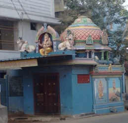 Kumbakonam sundaramurthi vinayakar temple கும்பகோணம் சுந்தரமூர்த்தி விநாயகர் கோயில்